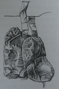 Meinhard II of Gorizia